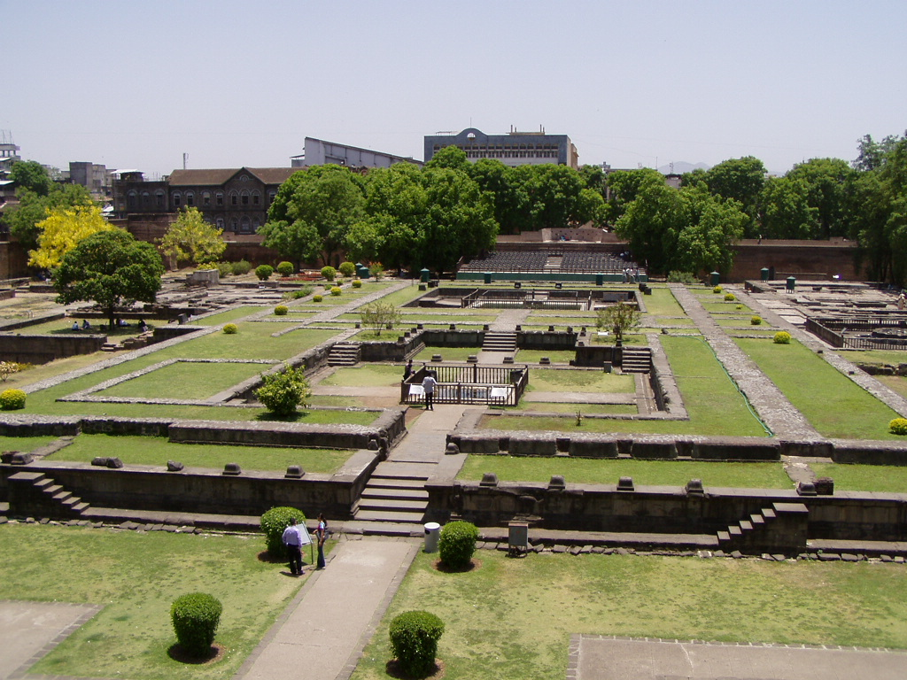 A view of Shaniwar wada from the floor above dilli darwaja (Delhi Gate). Amphitheater for the sound & light show can be seen in the back along the fort walls.